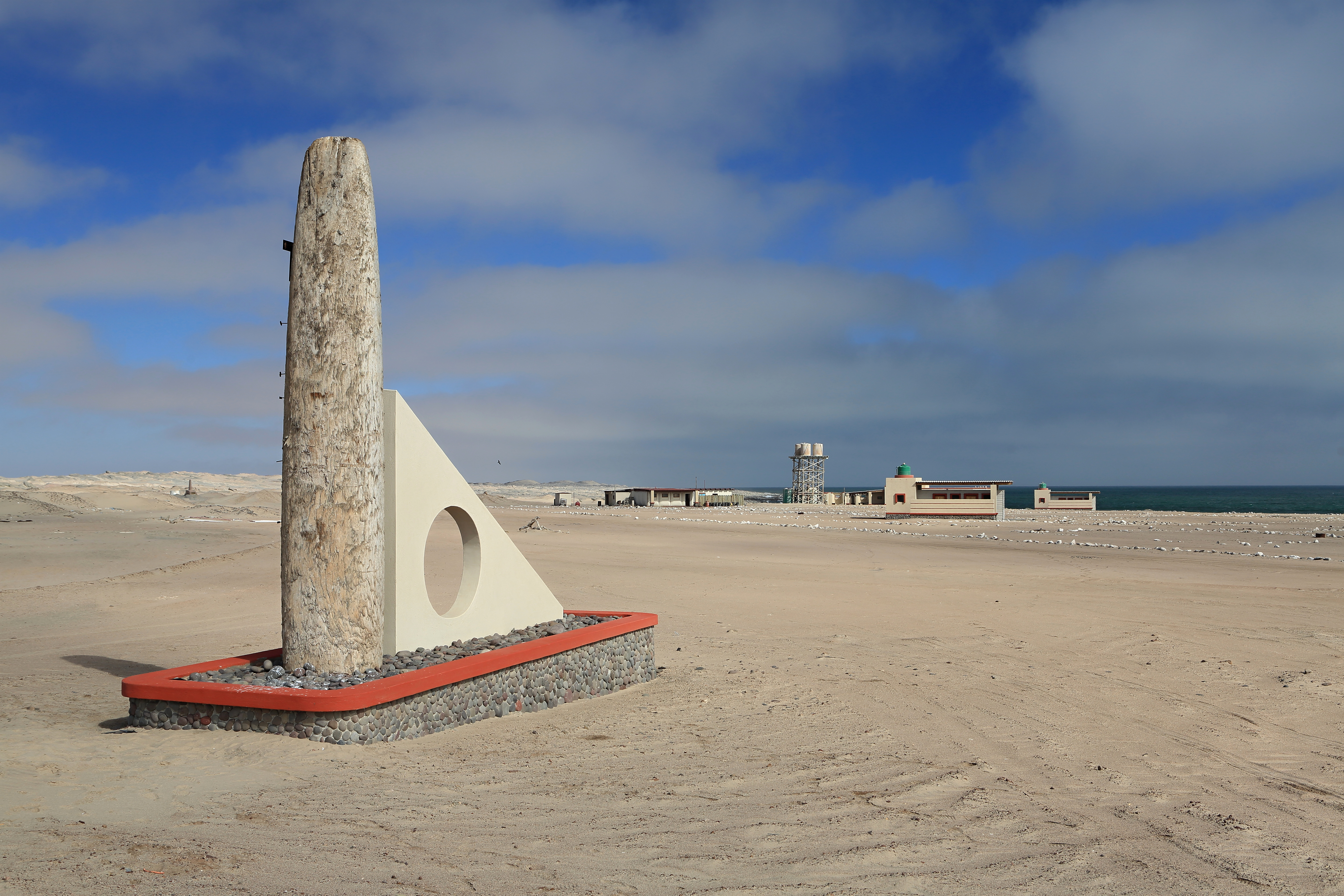 Torra Bay, Skeleton Coast